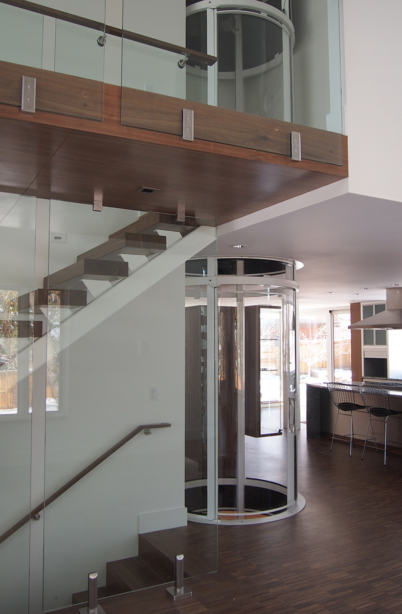 Visi-58 utilizing integrated hoistway construction and MRL design.